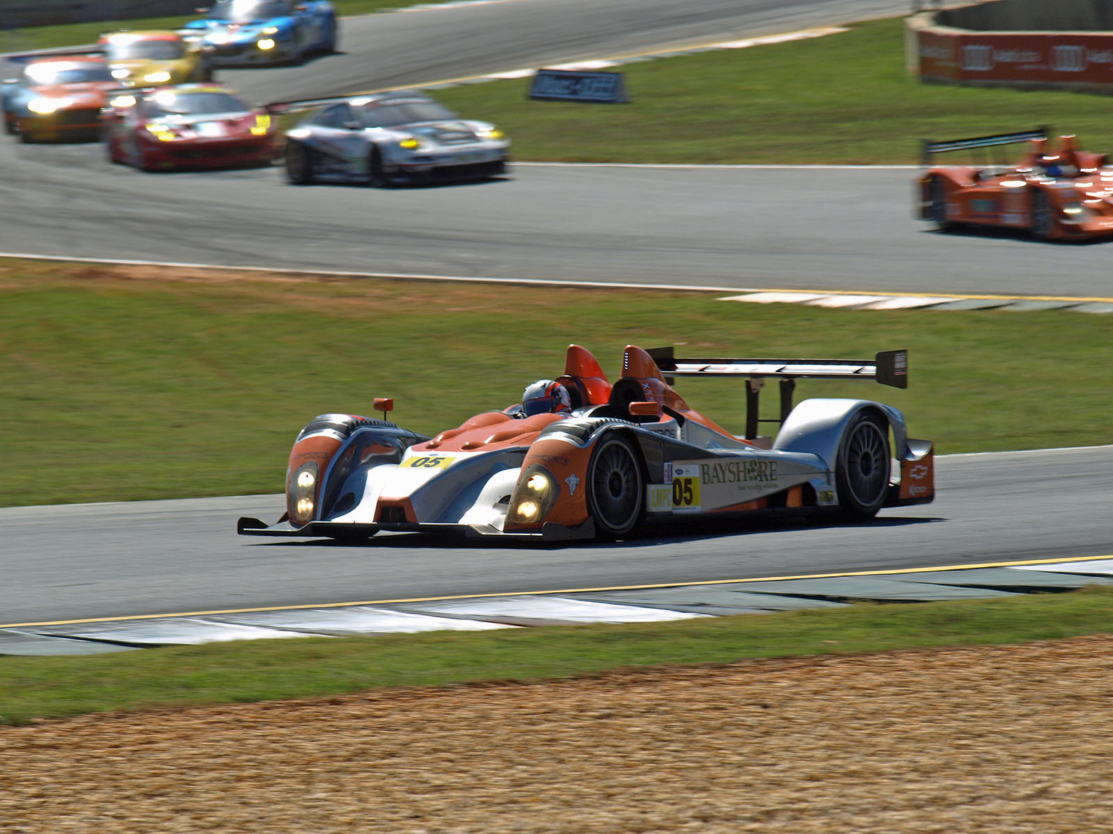 Jon Bennett driving the CORE Autosport Oreca FLM09-Chevrolet in the 2011 Petit Le Mans at Road Atlanta.